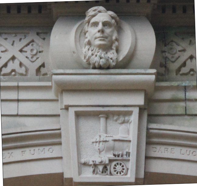 Henry Robertson above the front door at Palé Hall, Llandderfel near Bala, Wales.